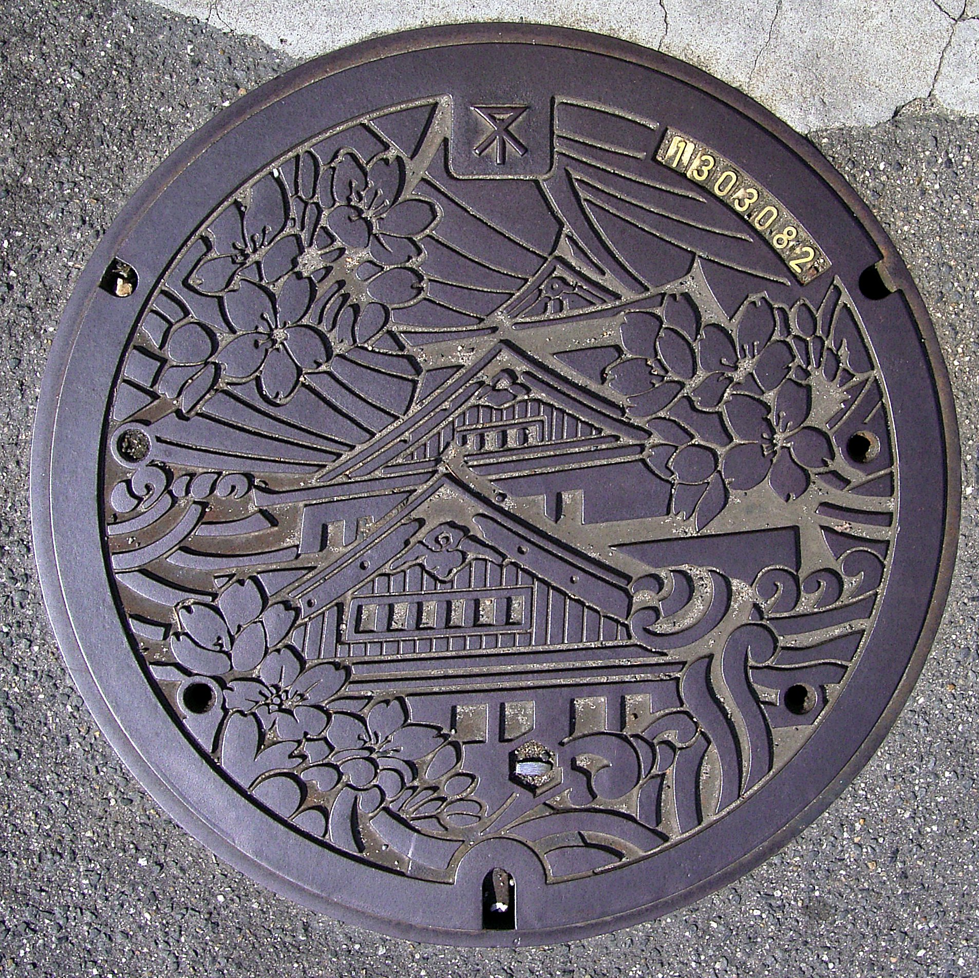 Location: Chuou-ku Osaka Japan Use for: unknown Memo: same design as